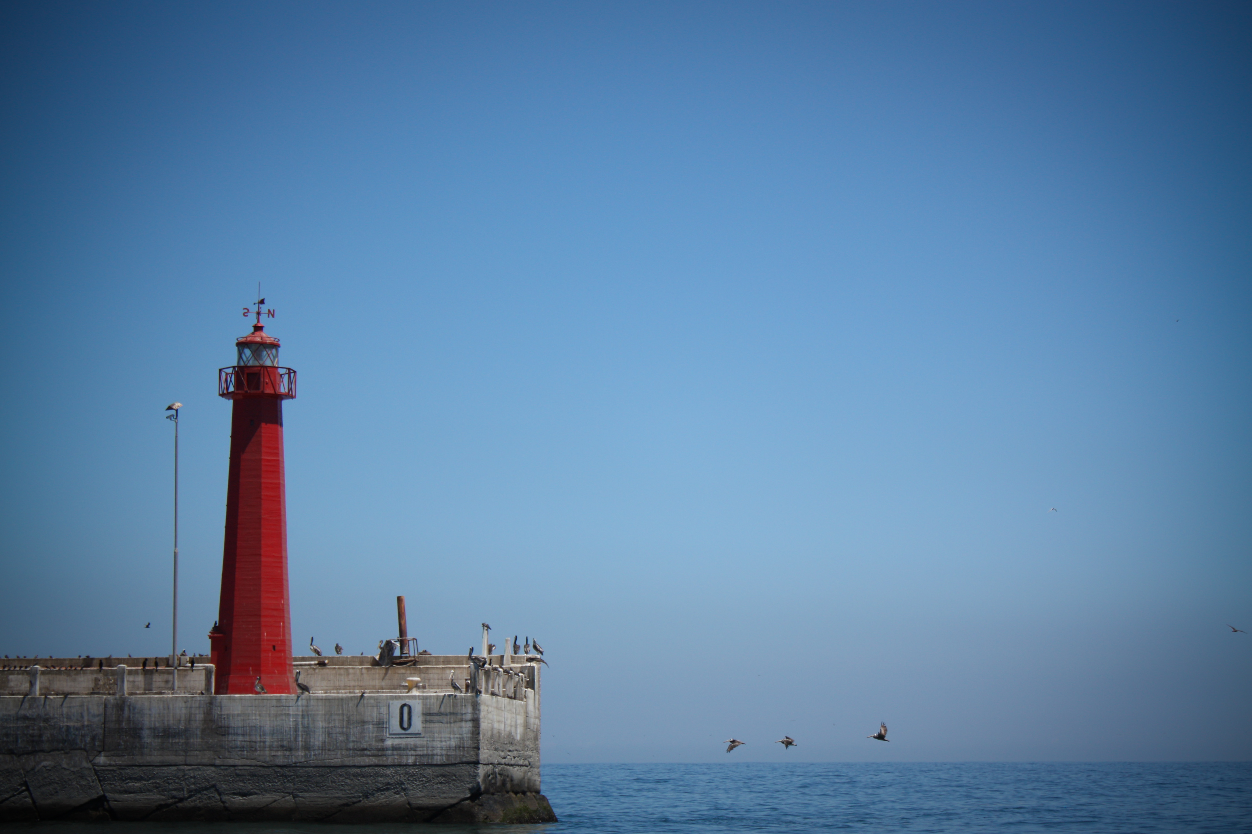 Molo de Abrigo Lighthouse, Iquique, Chile